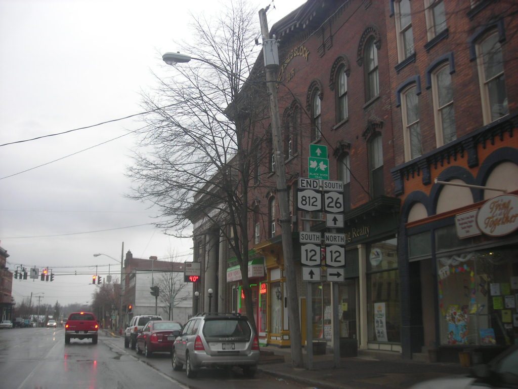 Sign assembly at New York State Route 812's southern terminus in Lowville. The southernmost couple of blocks of NY 812 are concurrent with New York State Route 26, as the assembly implies.